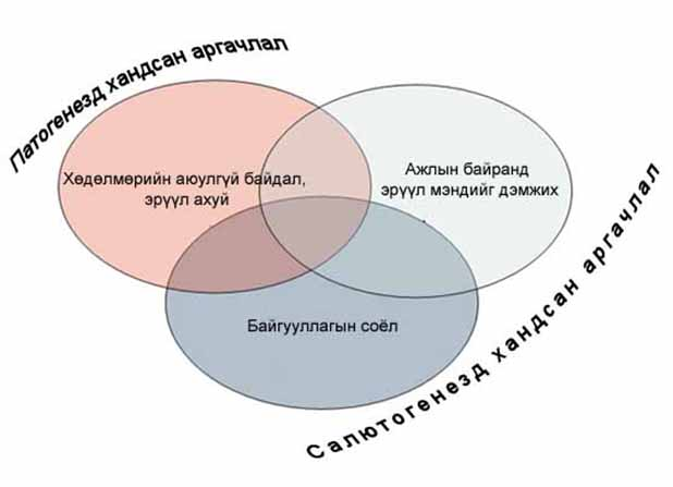 Comprehensive workplace health promotion concept